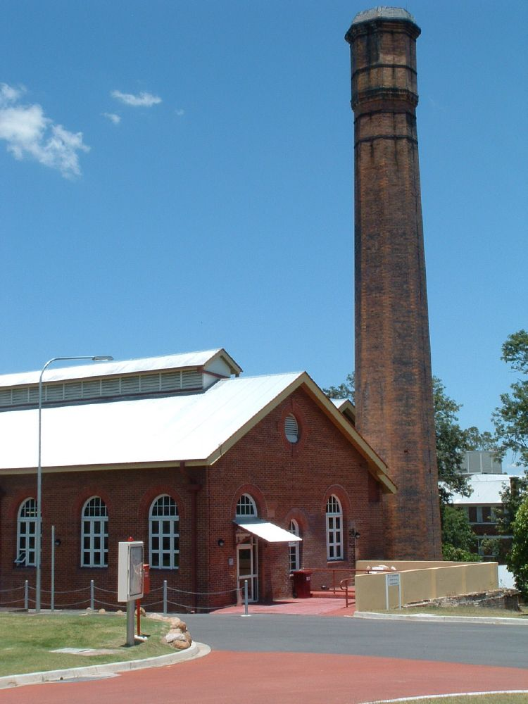 Wolston Park Hospital Complex powerhouse (2001)